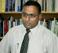 This is my personal photo